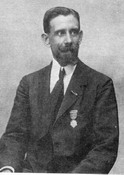 José María Miró Trepats